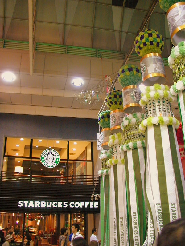 Starbucks at Sendai CLIS Road & the decorations of Sendai Tanabata Festival (the Star Festival of Sendai)